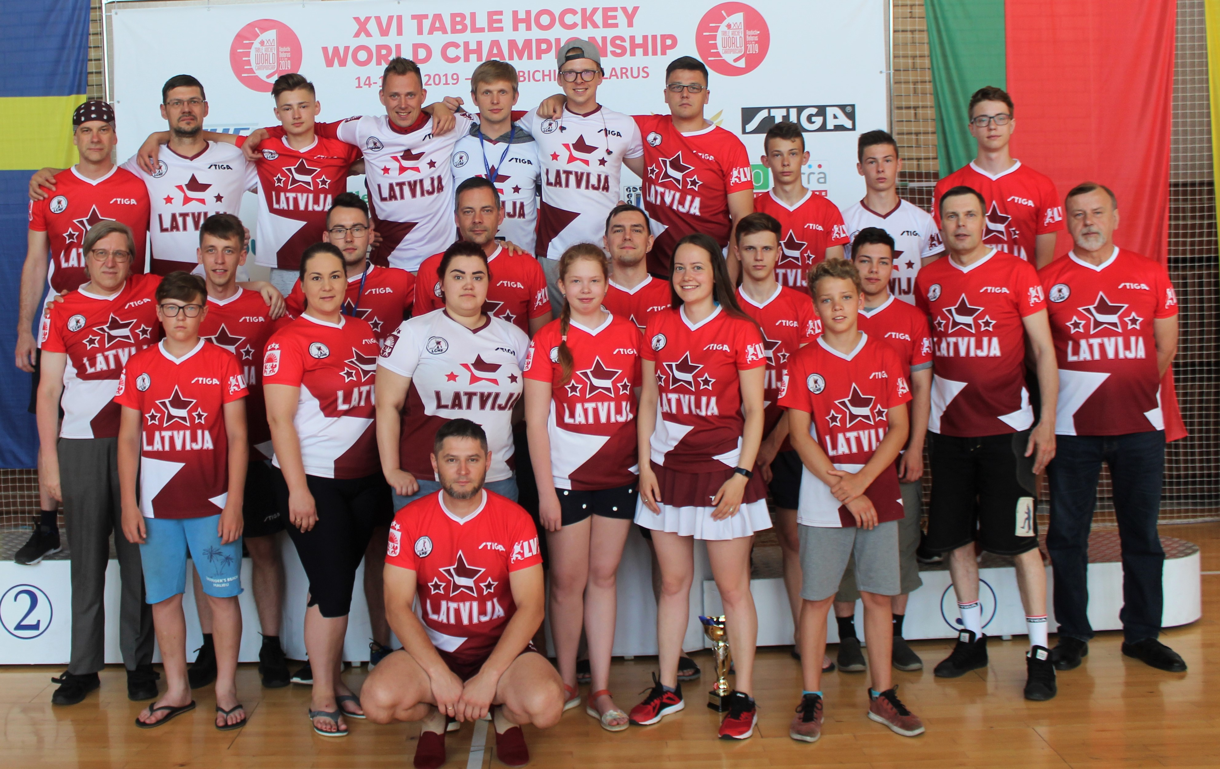 Latvian National Table Hockey Team at World Championship - 2019 in Raubichi (BY).